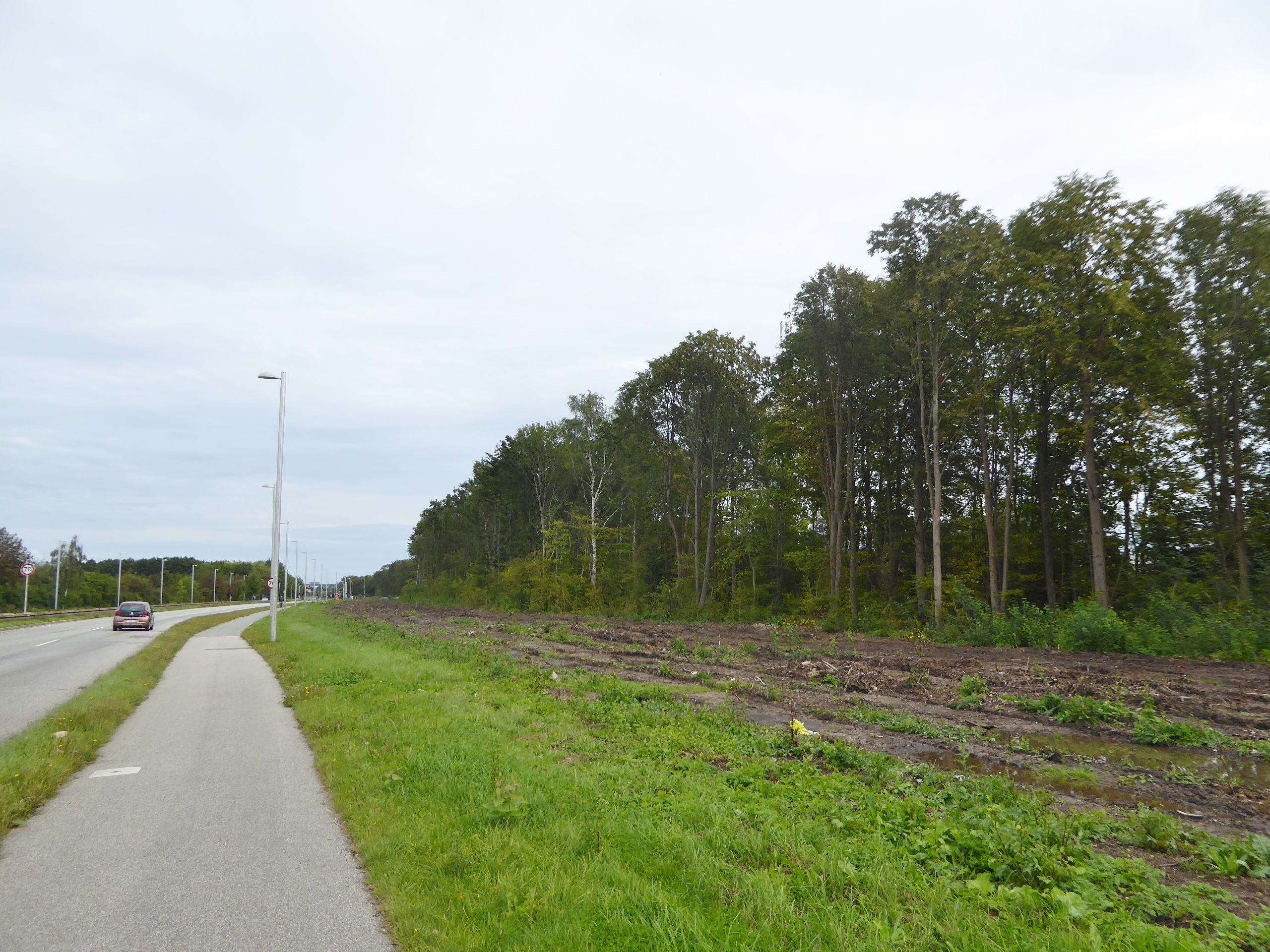 A lot of trees has been removed at Nordre Ringvej in Copenhagen to make room for Hovedstadens Letbane. When it opens in 2025 there will be a station here at Ejbydalsvej.